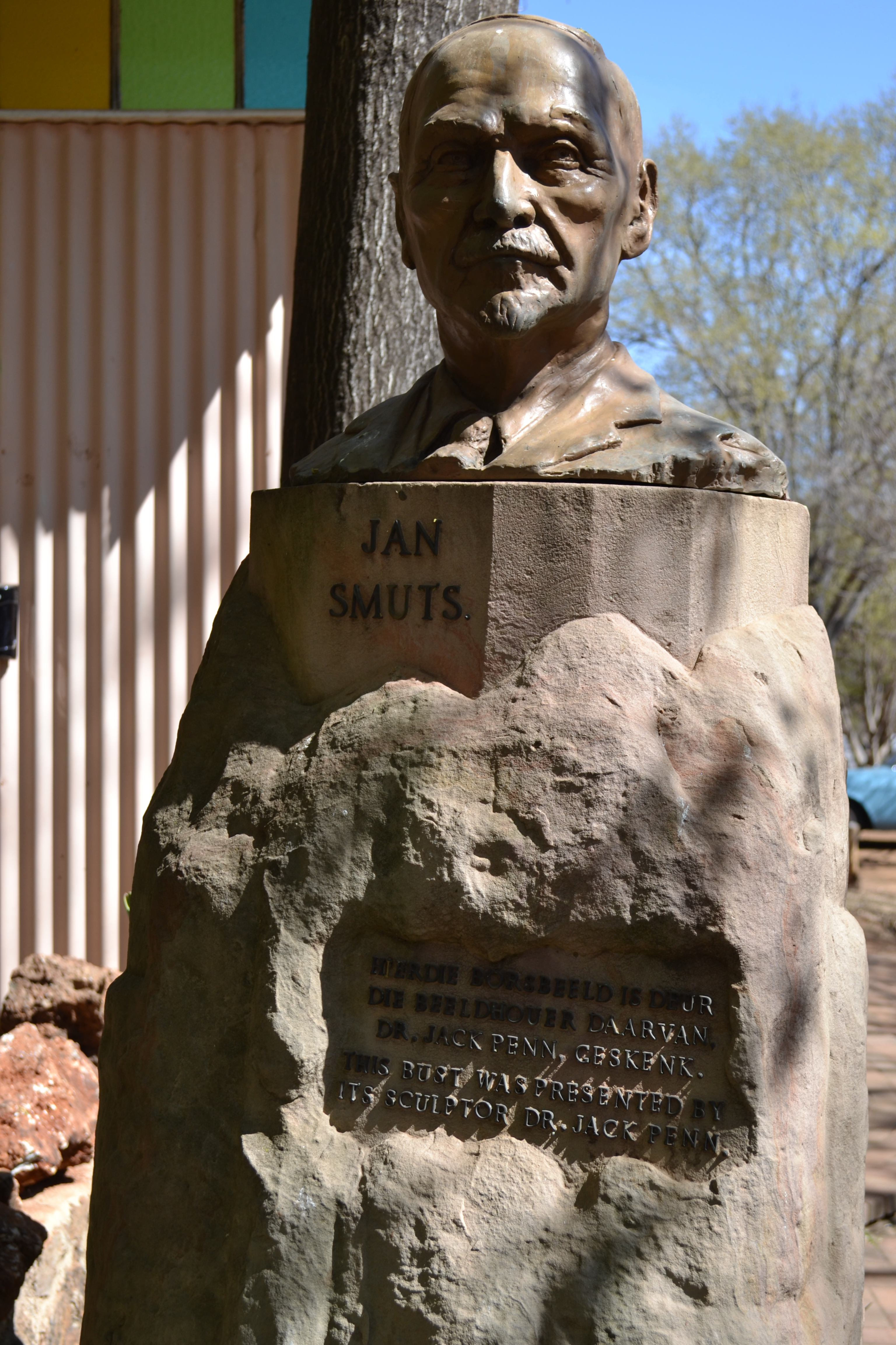 Smuts house Irene Pretoria This media shows a South African Protected Site with SAHRA file reference 9/2/258/0064.